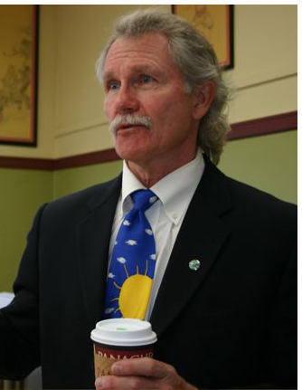 John Kitzhaber